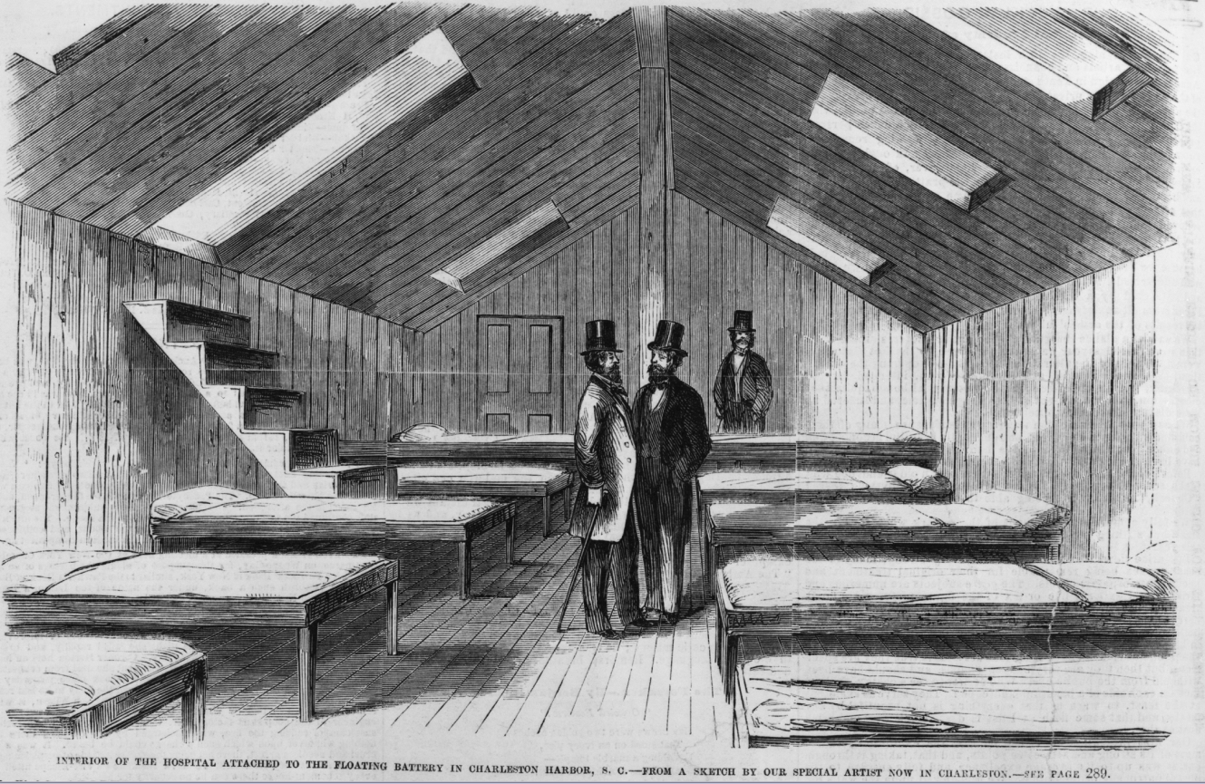 Interior view of the detached hospital of the Floating Battery of Charleston Harbor